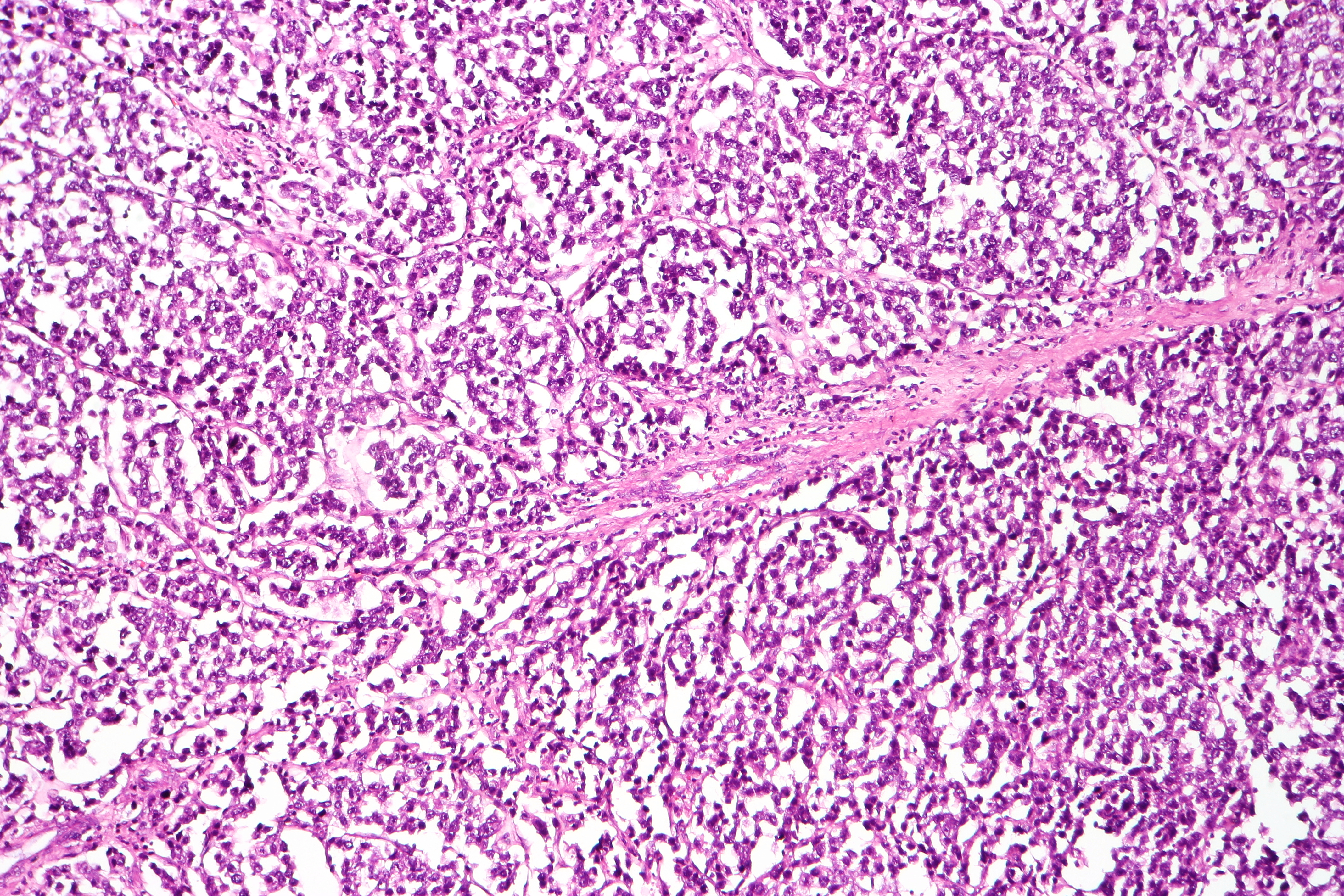 Dysgerminoma characterized by uniform cells resembling primordial germ cells separated by fibrous septa with lymphocytes. H&E Stain.